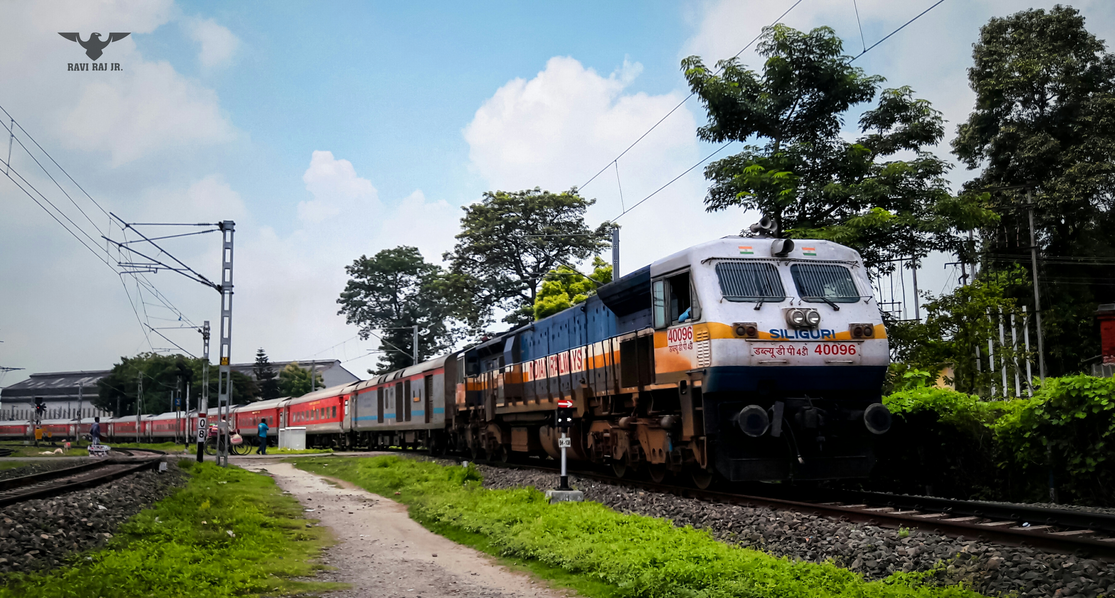 Pic - 2019